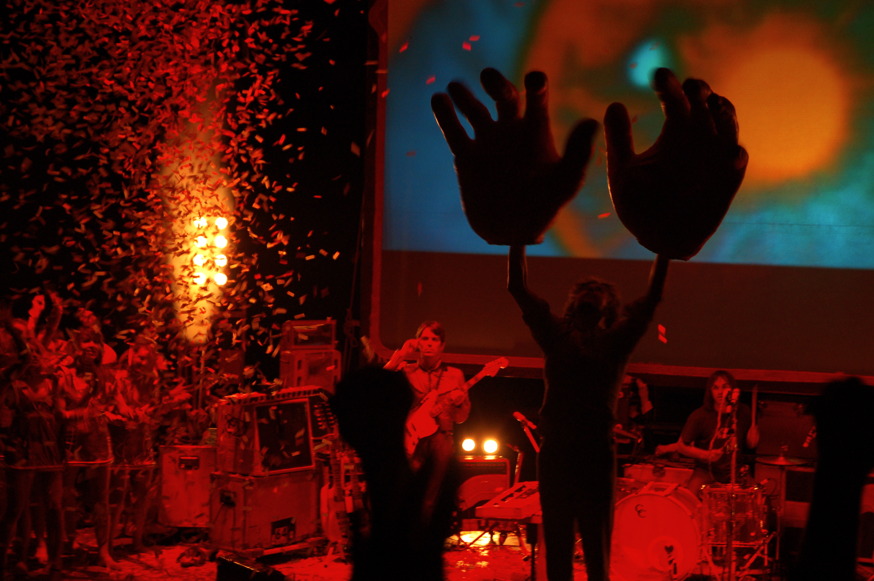 The Flaming Lips, Red Rocks Amphitheatre, Red Rocks Park, Morrison, CO - July 29, 2006.